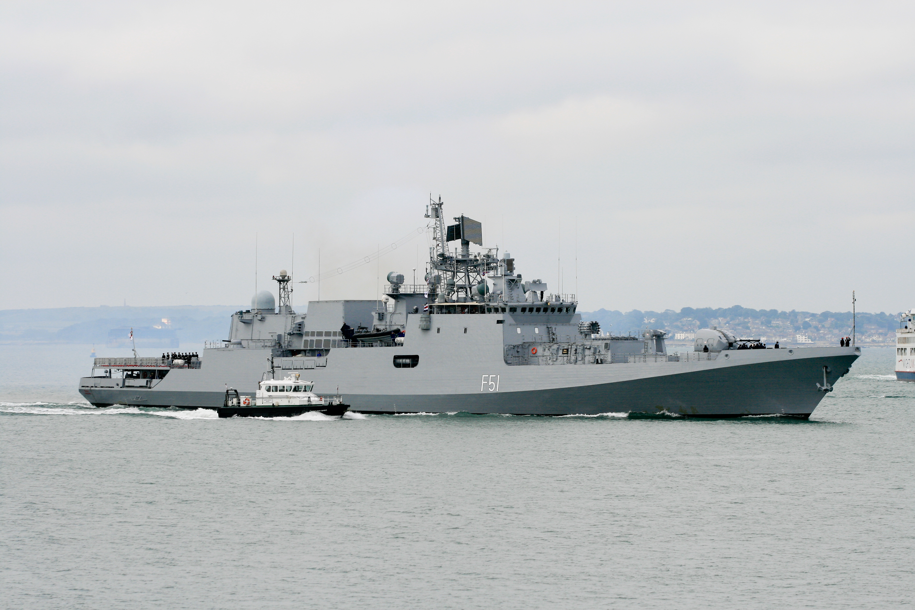 Newly constructed Indian Navy Talwar class (modified Russian Krivak III class) frigate INS Trikand (F51) off Southsea Castle while entering Portsmouth Naval Base, UK, 12 July 2013, on an Indian-bound delivery voyage from the Baltiysky Zavod shipyard in St Petersburg, Russia. INS Trikand) is the last frigate of her class ordered from a Russian shipyard. The successor frigate class to the Talwars is the Shivalik class, and these are being built at Mazagon Dock. Mumbai in India. Wikipedia editors are reminded that the copyright remains with the photographer, and that the terms of the Creative Commons (CC), Attribution (BY), Share Alike (SA) CC-BY-SA-3.0 that allow editors to reuse this image apply to Wikipedia editors also, as they do to other re-users of this image. Breaches of the licence terms are not only unlawful, but are also antisocial, in that breaches discourage photographers from making their images freely available to everyone without payment. Wikipedia re-users are also reminded of the license terms that derivatives of this image should not imply that the adaptation is endorsed or approved by the author or copyright holder. Neither should derivatives be presented as the creation of the author or copyright holder, while clearly stating that the adaptation is a derivative of the original. Attribution online should be in this format Brian Burnell. On the printed page, a simpler form is acceptable - example: "Image: Brian Burnell".